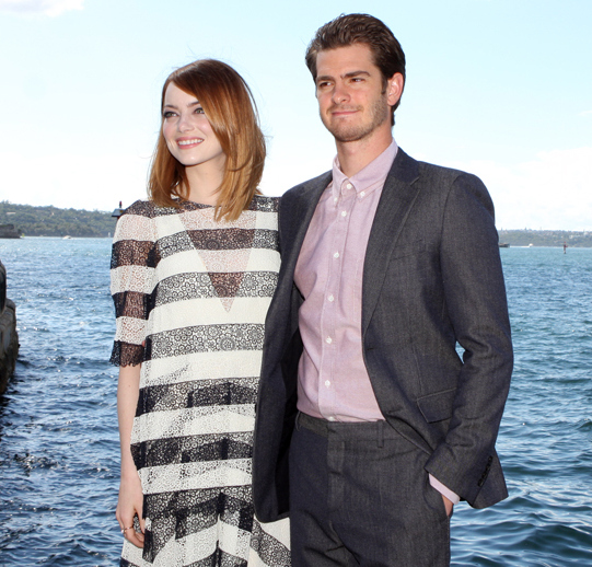 Emma Stone and Andrew Garfield in The Amazing Spiderman 2: Rise Of Electro in Sydney, Australia 2014.